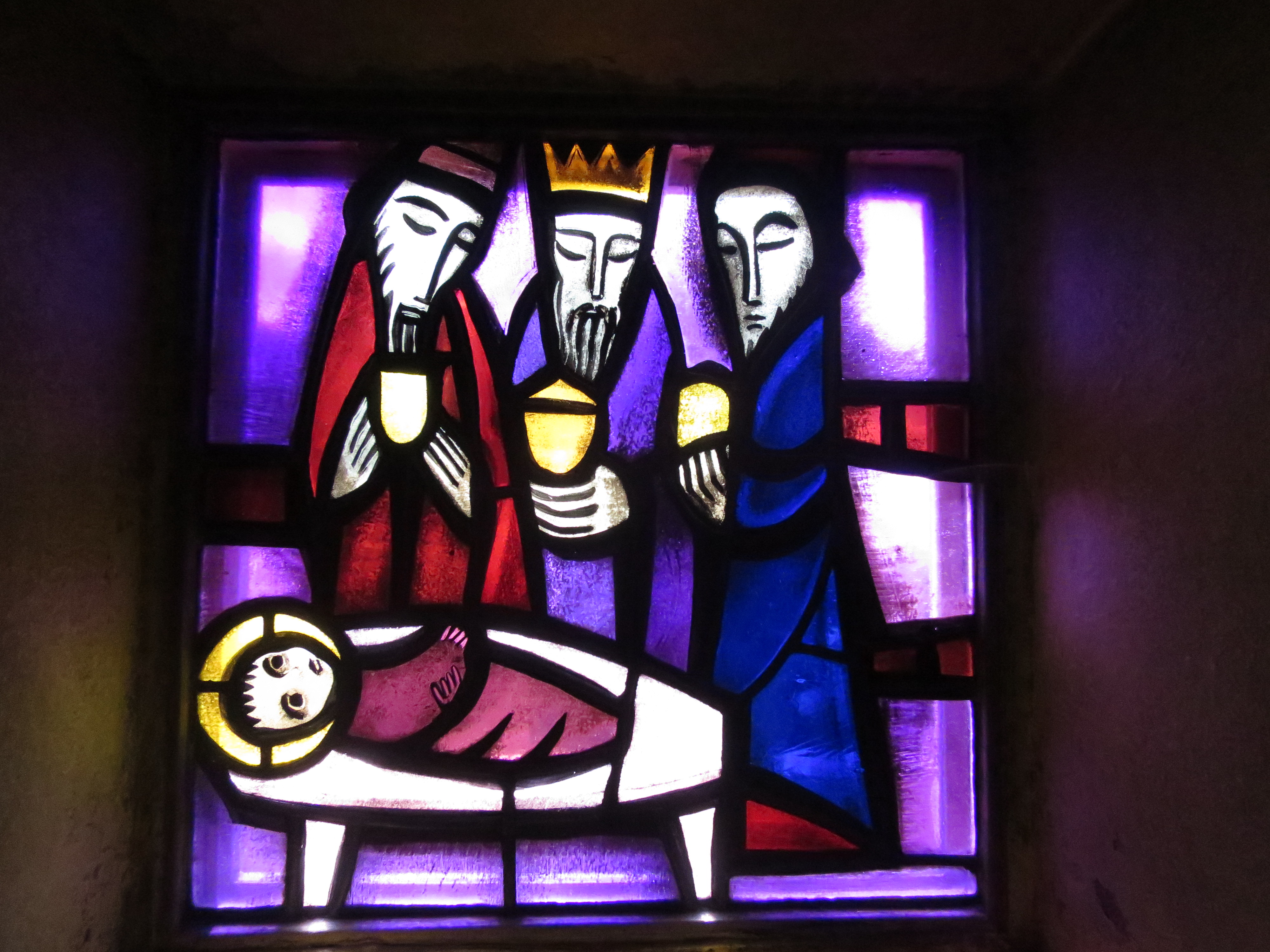 Kirchenfenster von Frère Éric de Saussure: Die Heiligen Drei Könige